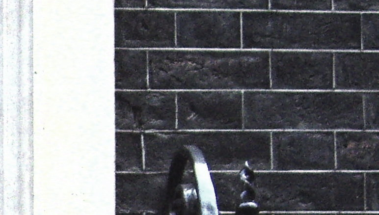 The wall of 10 Downing Street, London, to illustrate the technique of Tuckpointing. Detail from original image, reduced resolution.